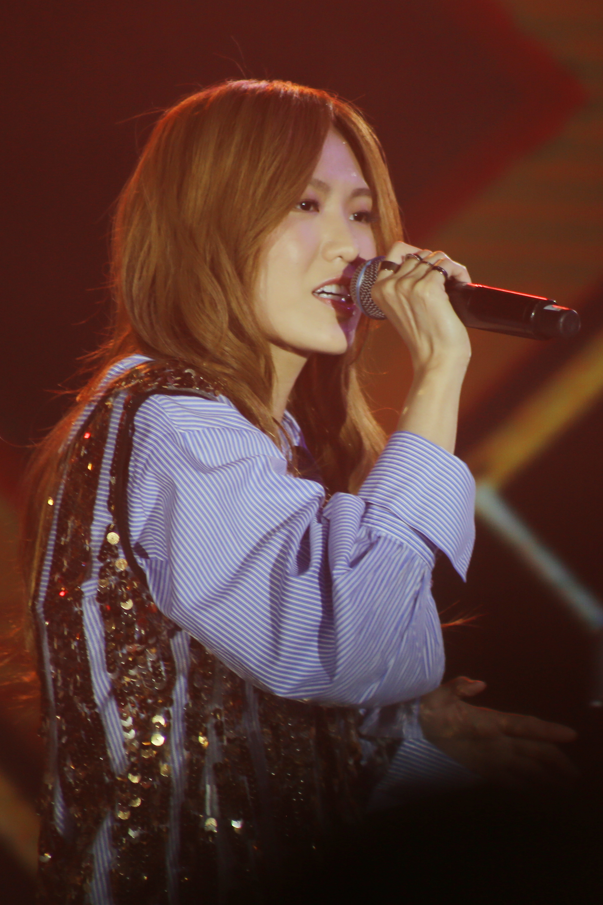 Shi Shi